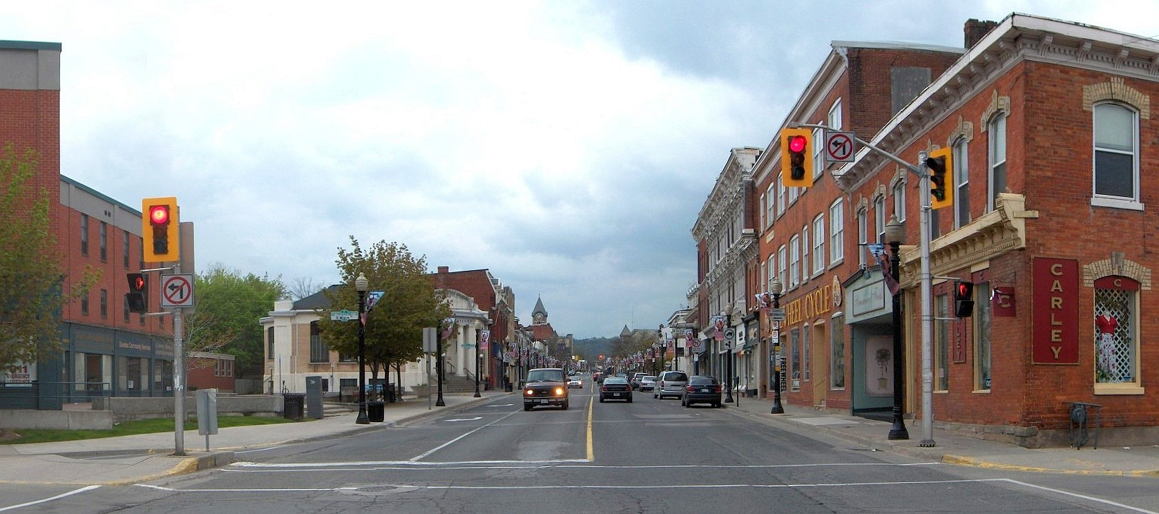 I created this image May 2005.